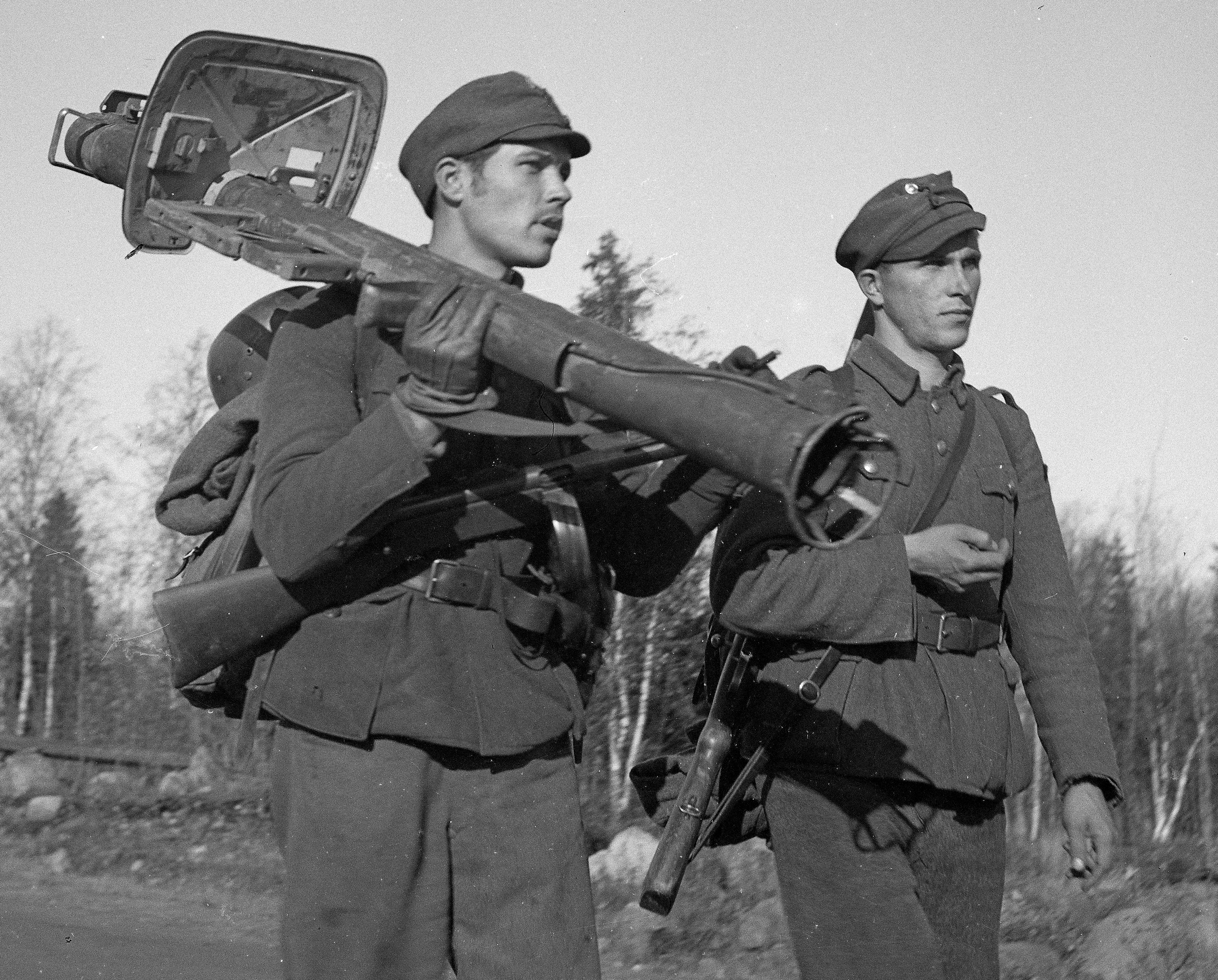 Finnish antitank patrol advancing to Kemi when fighting against Germans during Lapland War in Finland. The gun is a German bazooka "Panzerschreck" RPzB